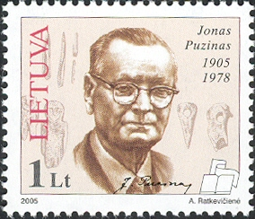 Stamps of Lithuania, 2005